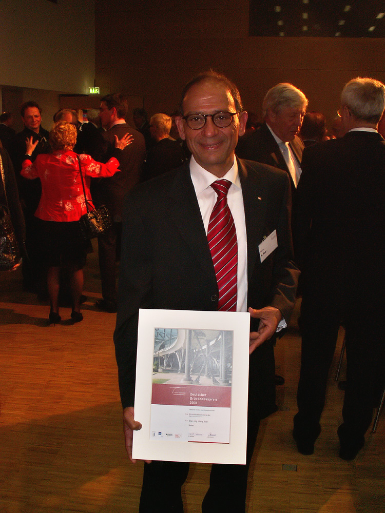 Hany Azer, an executive construction engineer at Deutsche Bahn AG, after receiving (among others) the German Bridge Construction Award 2008 for the Humboldthafen Bridge Berlin, with his award certificate.